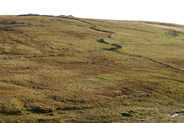 Feelie dyke above Burn of Feal, Fetlar A feelie dyke is an earth dyke, here presumably denoting a previous field system.